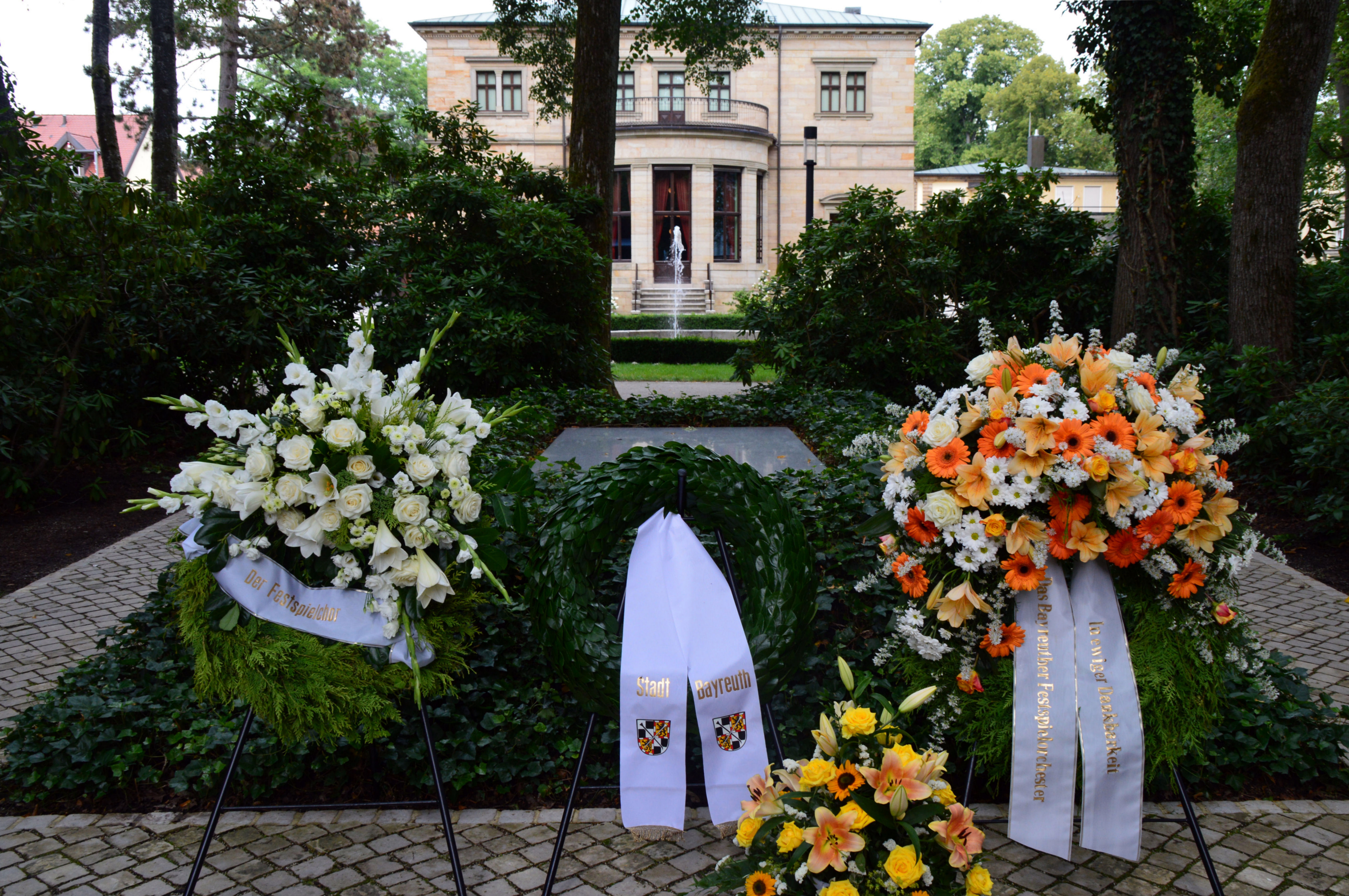 Grave Richard Wagner behind his villa Haus Wahnfried in Bayreuth Germany